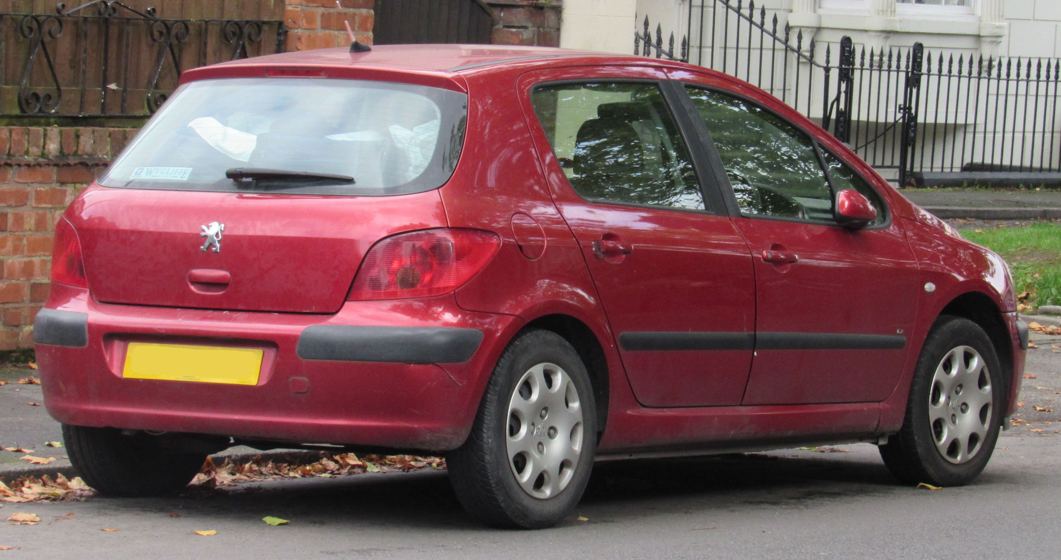 2002 Peugeot 307 LX 16v 1.6 Rear Taken in Leamington Spa